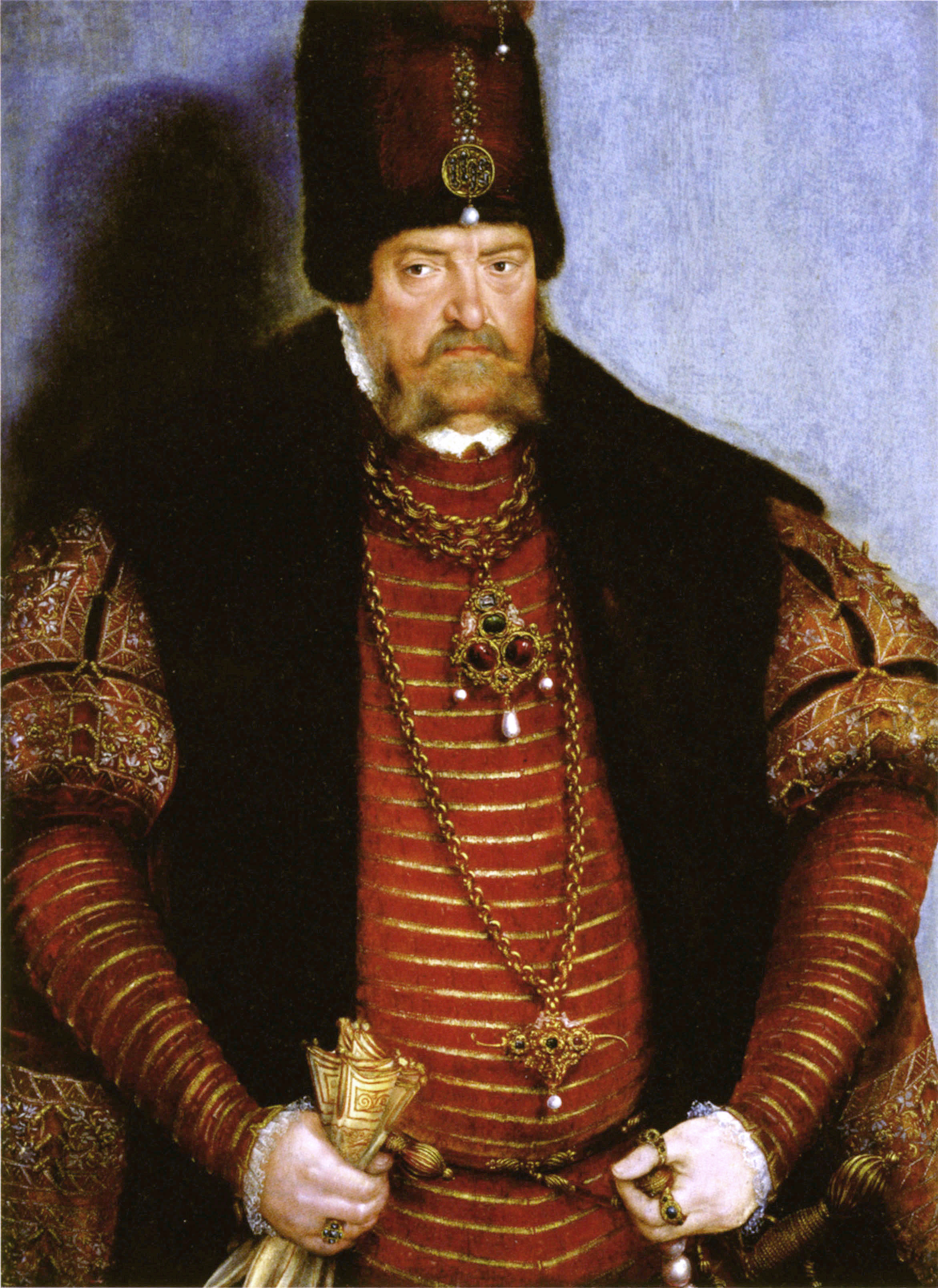 Joachim II. portraited almost life-size in half-length figure is looking at the viewer. Over his sumptuous robe he wears a fur waist-coat. The sable hat is decorated with the Christ monogram ihs, and Joachim holds a rosary in his left and a glove in his right hand. In this portrait Joachim appears older compared with the Perini portrait.